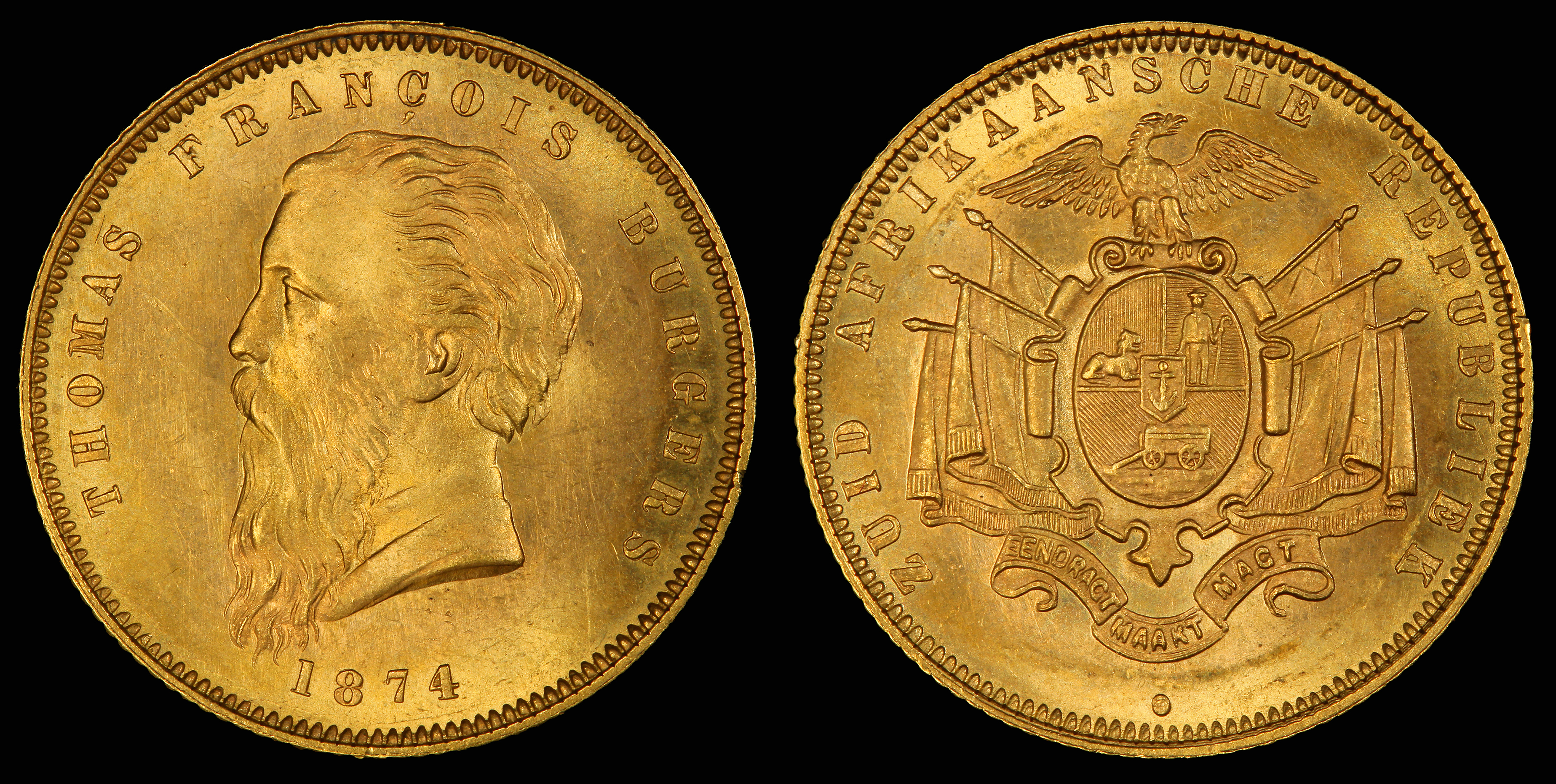 South Africa 1874 One Pond depicting Thomas François Burgers, 4th State President of the Republic of South Africa